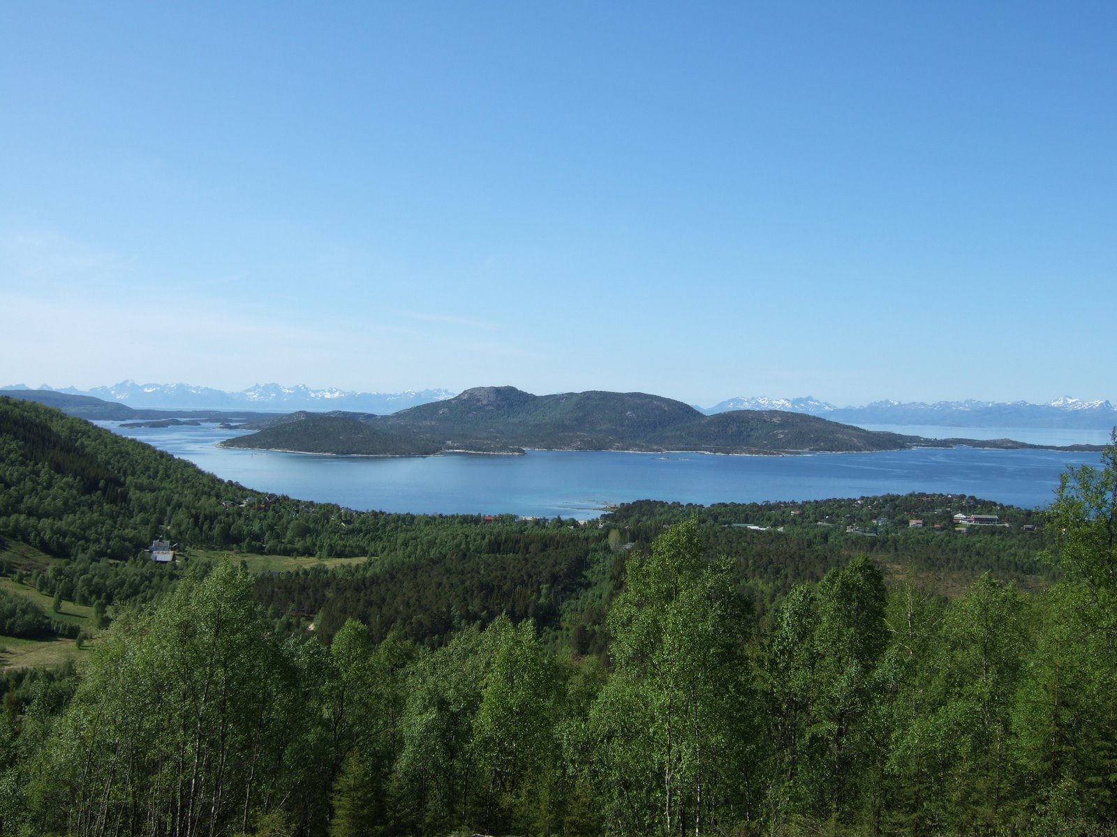 Towards Ulvsvåg and Tannøya island in Hamarøy, Norway